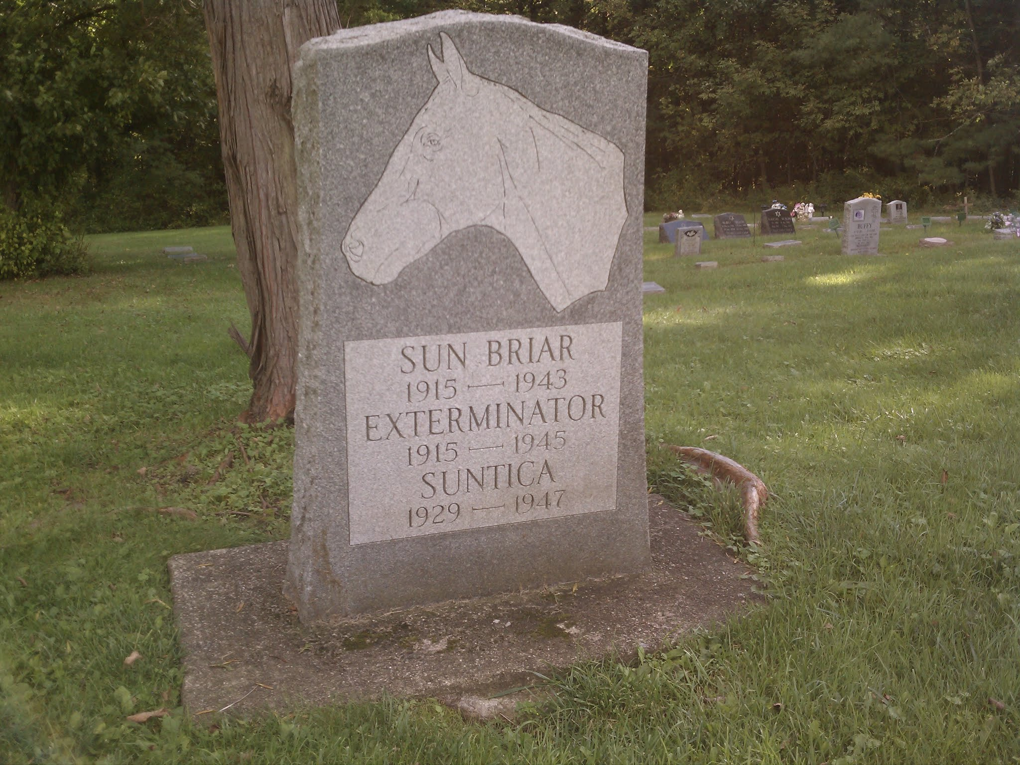 Gravesite of Exterminator, Sun Briar, and Suntica in Binghamton, NY.